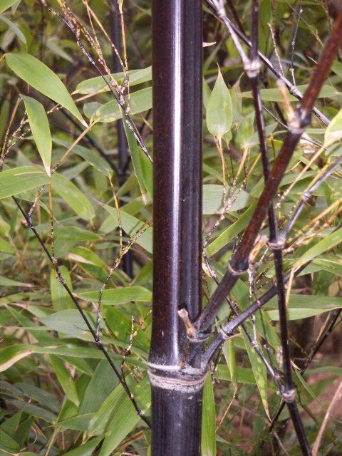 Phyllostachys nigra Autor:Jordi Coll Costa 10:50, 14 May 2005 (UTC)